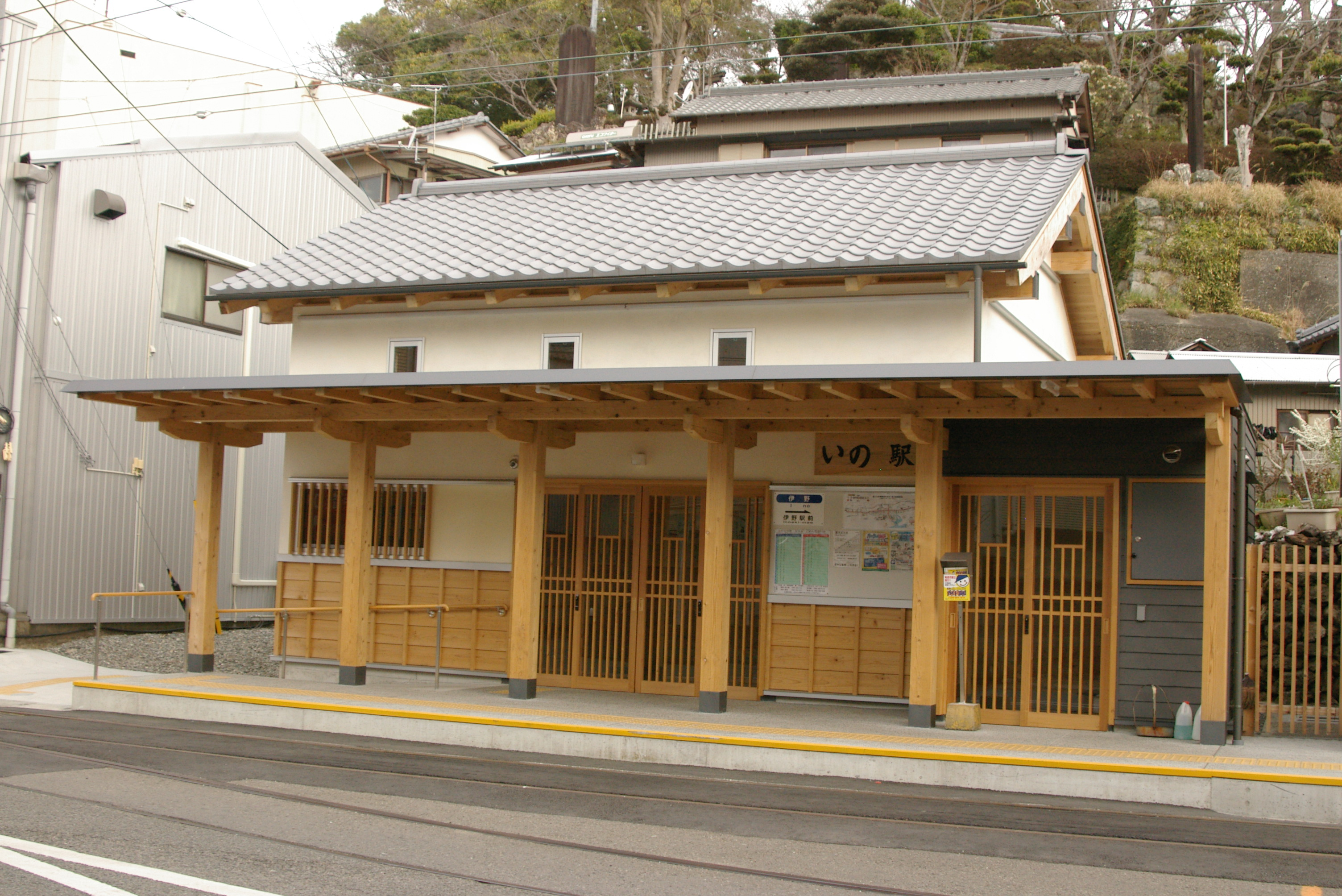 Ino station (New building) 土佐電気鉄道伊野駅